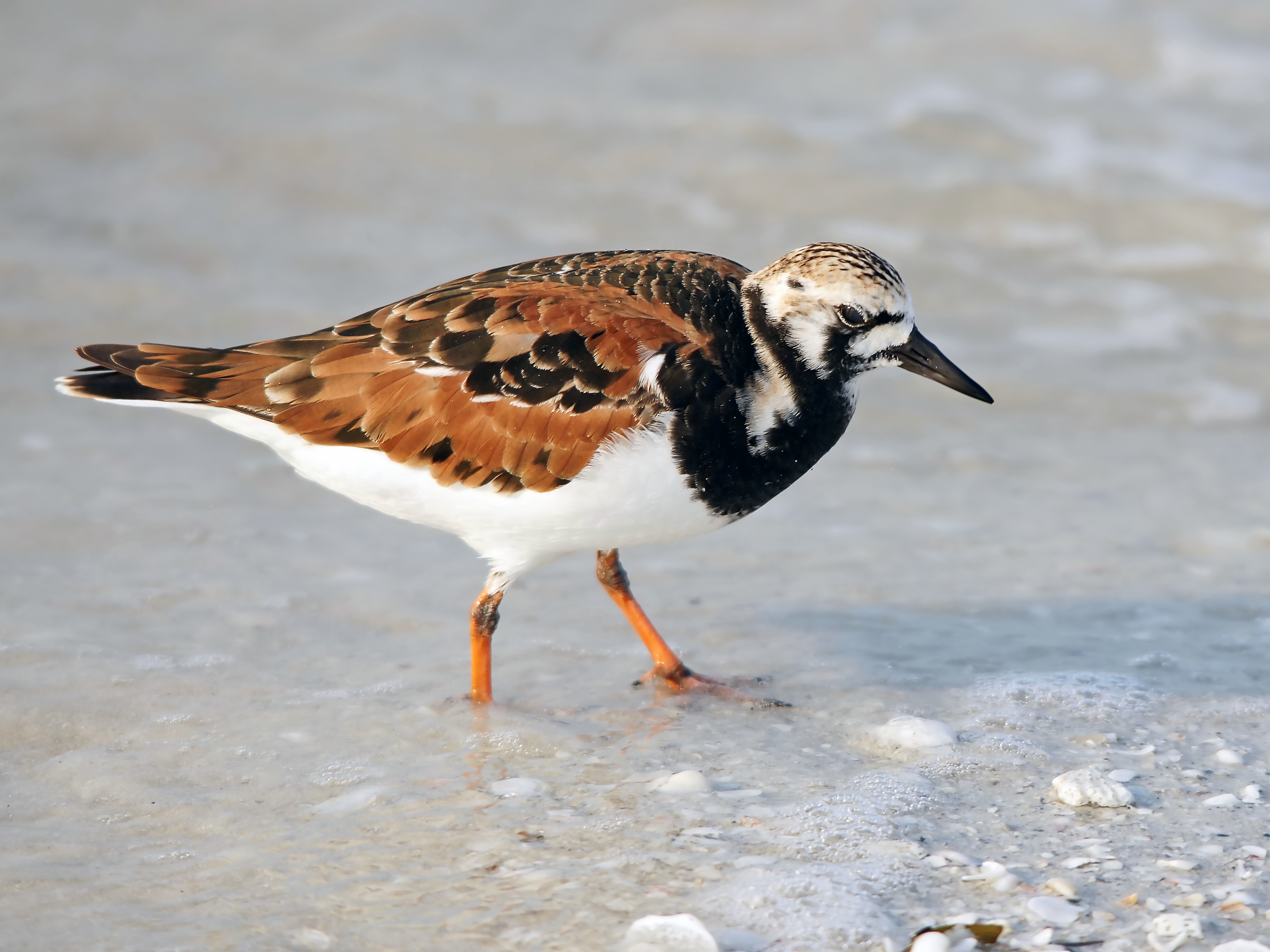 Ruddy Turnstone in breeding plumage at Sanibel Island in Florida, U.S.A.